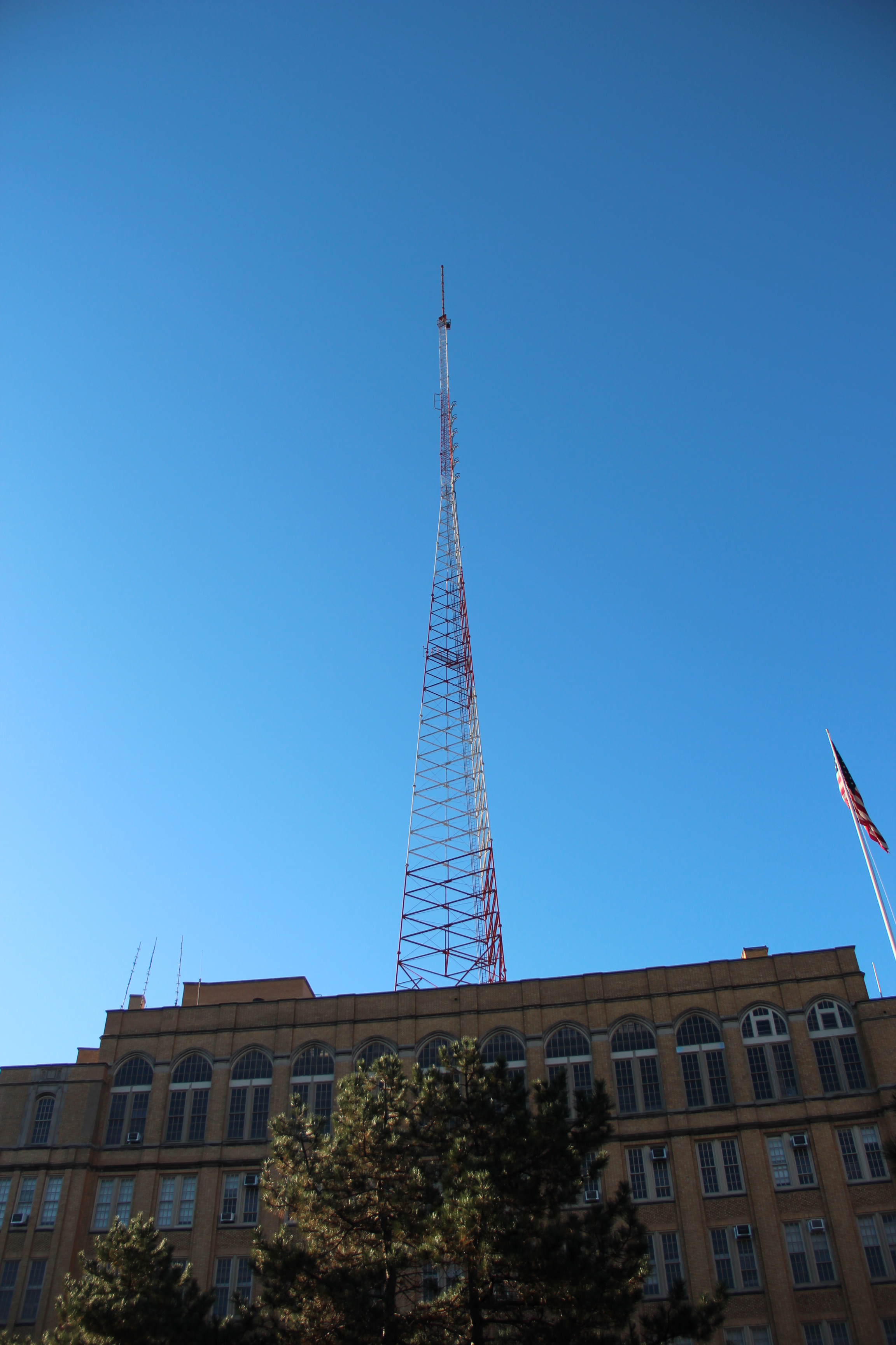 Brooklyn Technical High School Antenna